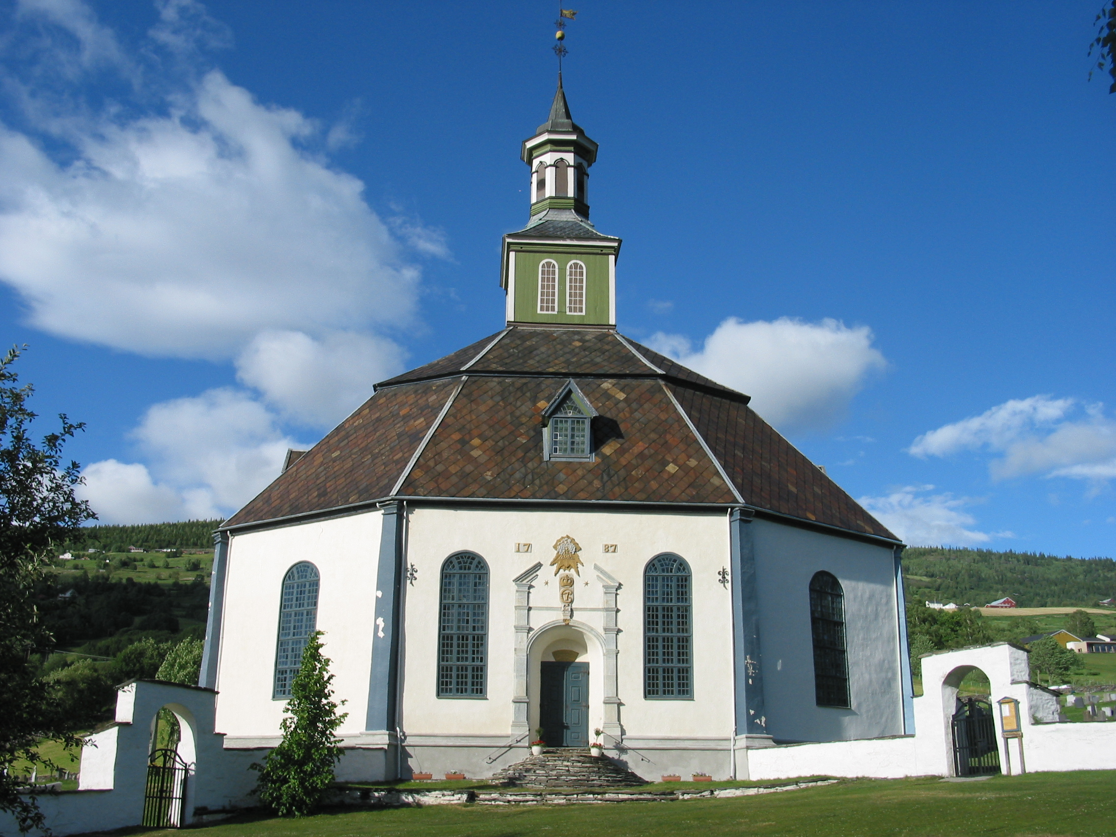 Sør-Fron church seen from the south, June 2008.